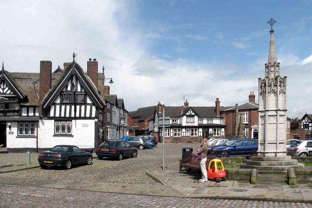 Sandbach Cobbles with Half-timbered Pubs ,including the the Black bear to the left , the War Memorial and the Saxon crosses in the background, Sandbach, in Cheshire, England.